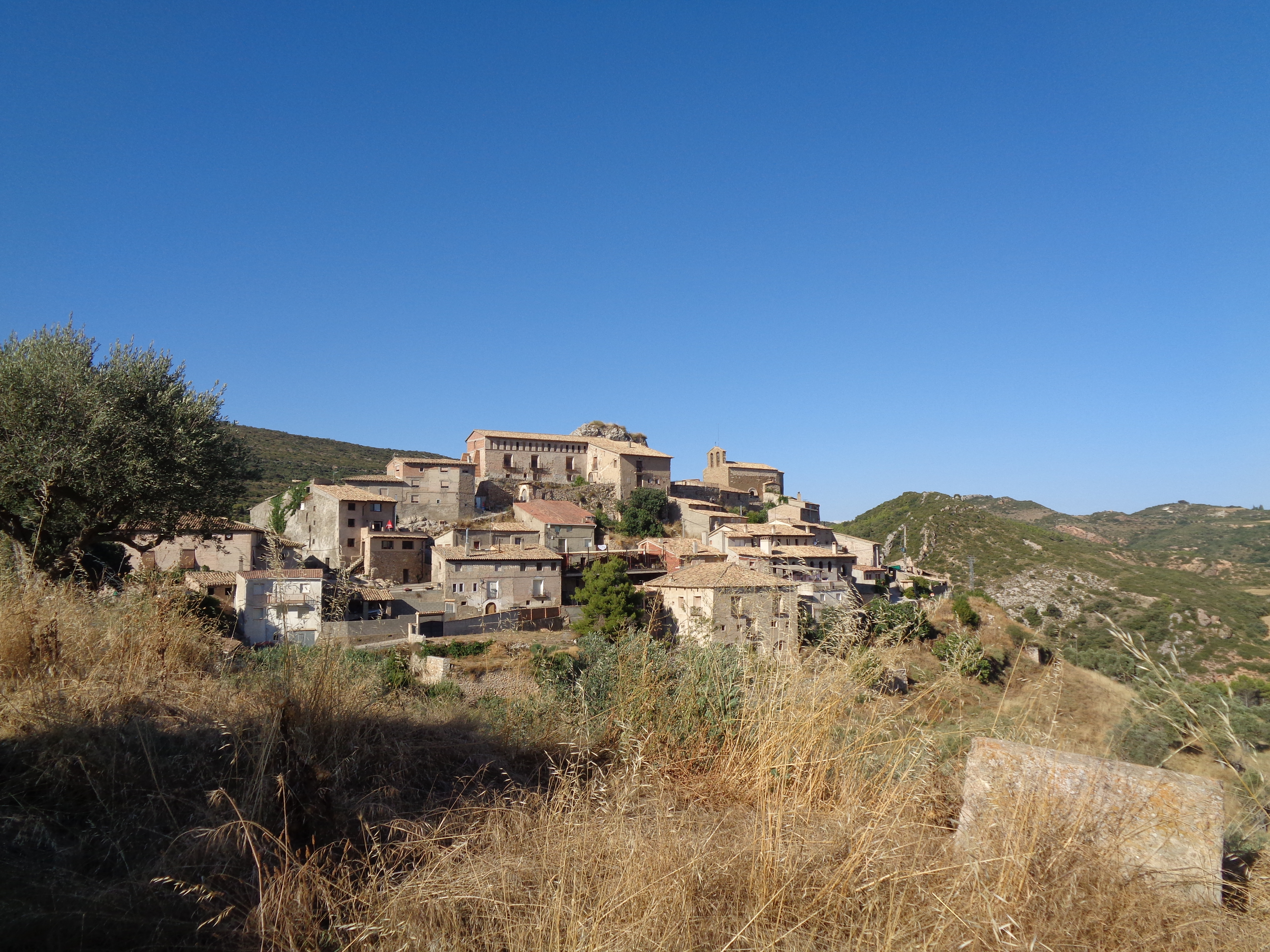 Alins del Monte, Huesca, Spain